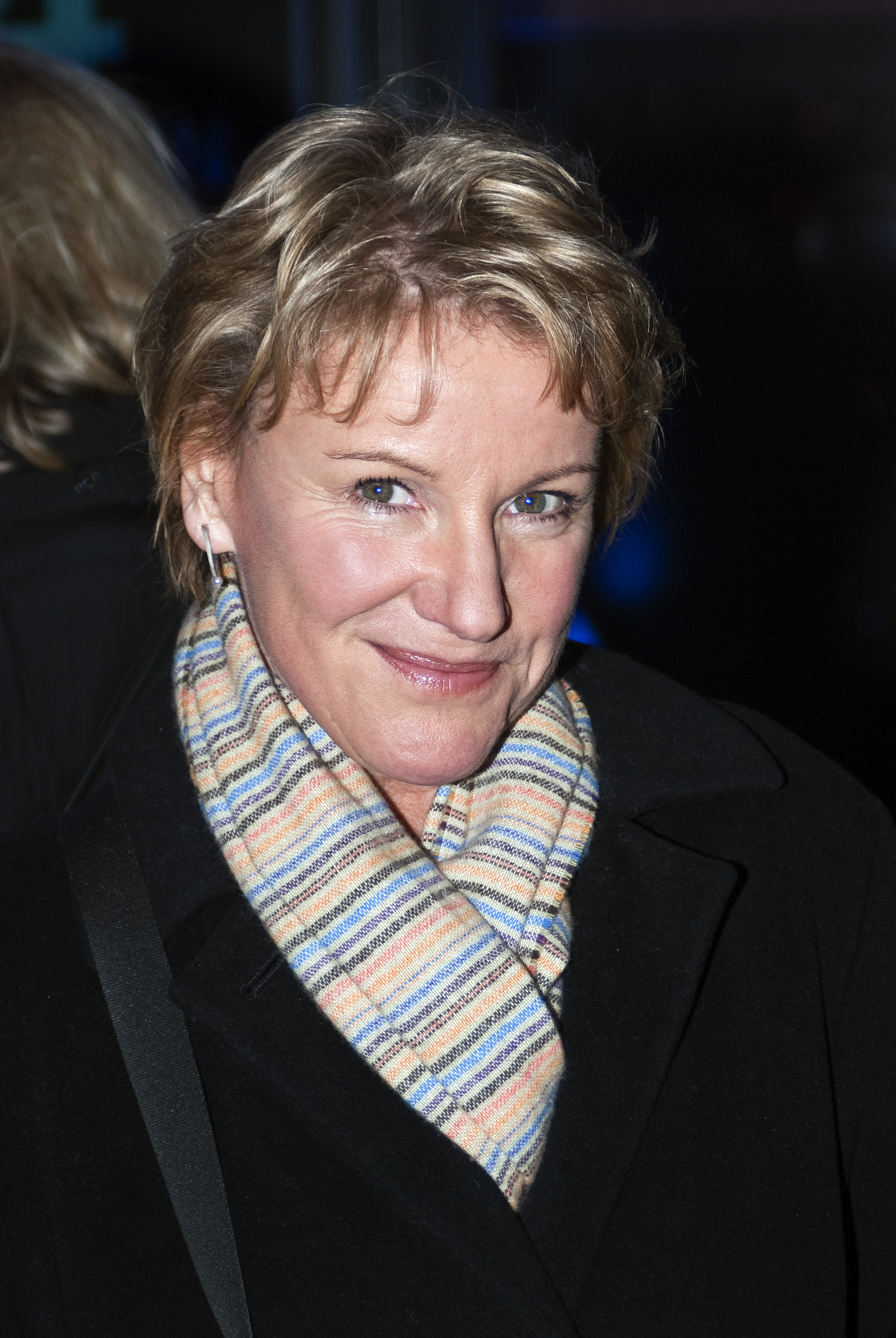 Mariele Millowitsch, German actress at Berlinale 2009